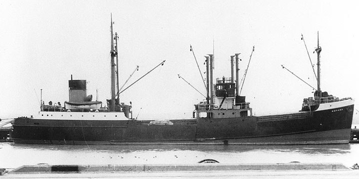 SS Kopara (New Zealand Cargo Ship, 1938) Probably photographed prior to World War II. This ship served as USS Kopara (AK-62 & AG-50) in 1942-45.